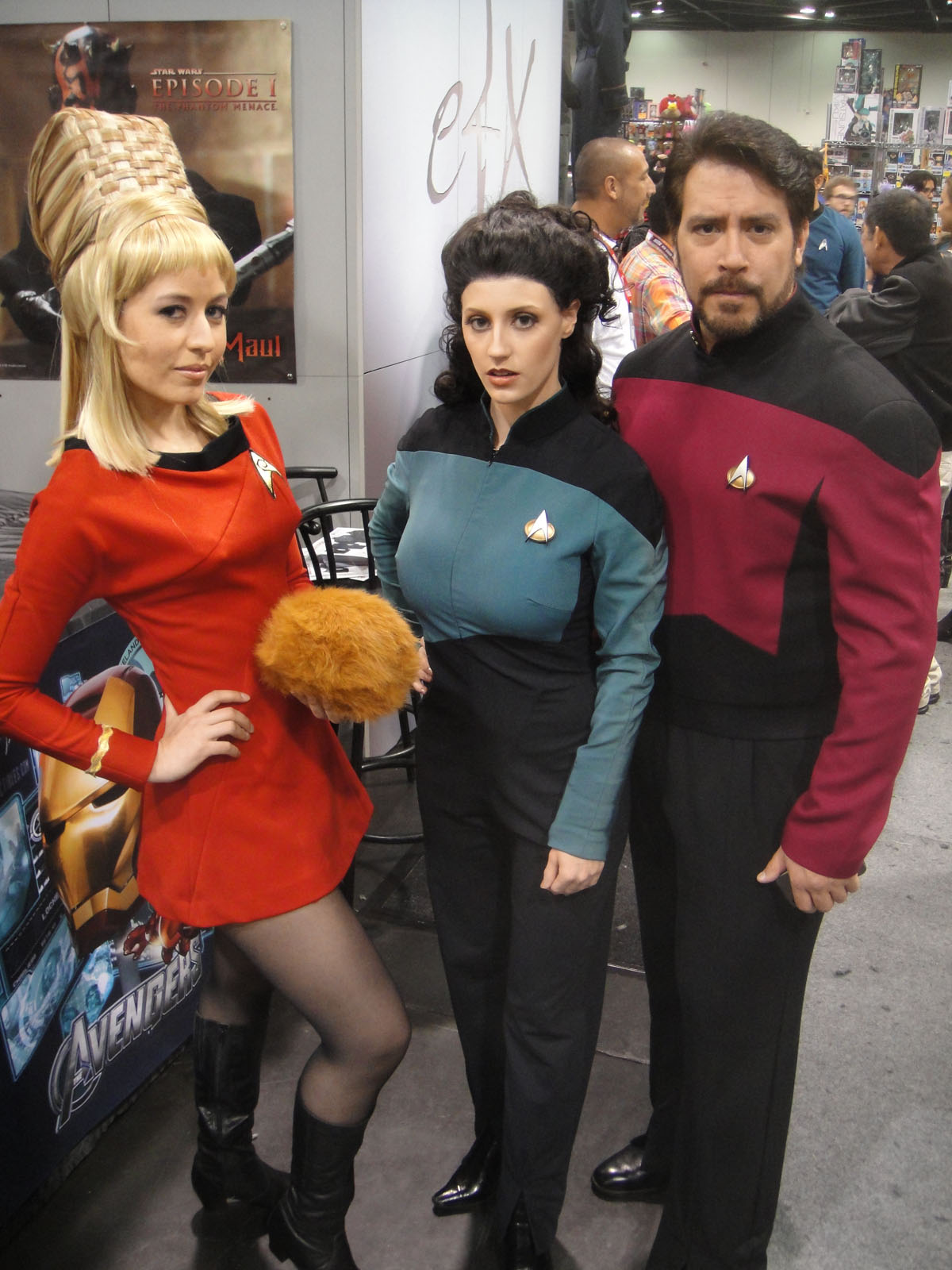 Cosplay at WonderCon 2012. From left to right: Yeoman Janice Rand, Counsellor Deanna Troi (cosplayer: Abby Dark-Star), and Commander William Riker (cosplayer: Zen Dragon).